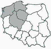 Polish III liga, Group 2: Kuyavia-Pomerania, Pomerania, West Pomerania and Greater Poland.